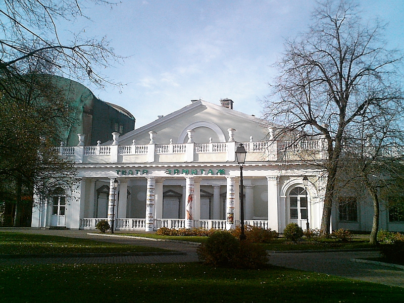 Hermitage Garden Hermitage Theater Moscow